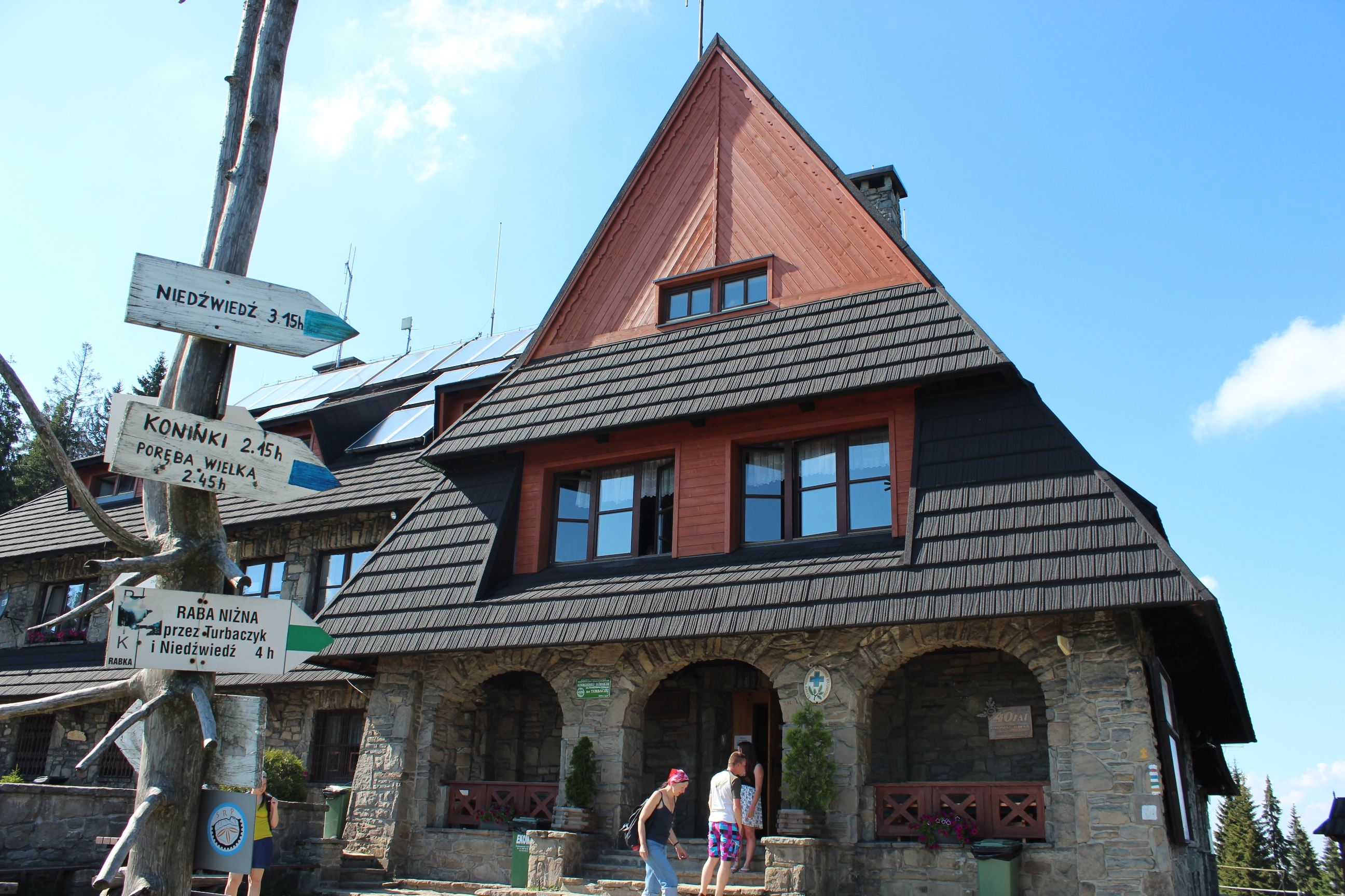 Turbacz mountain hut